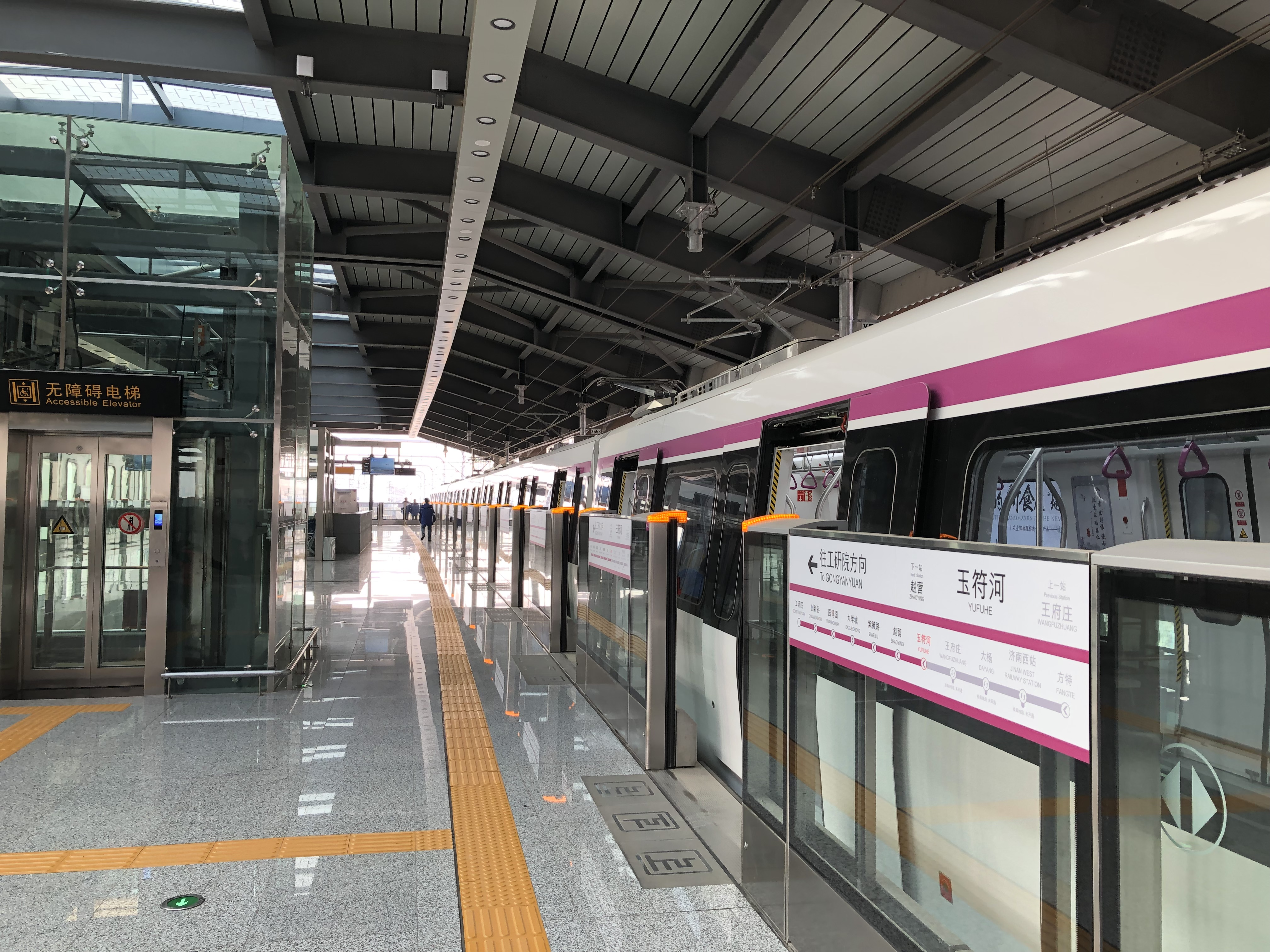 Yufu River Station